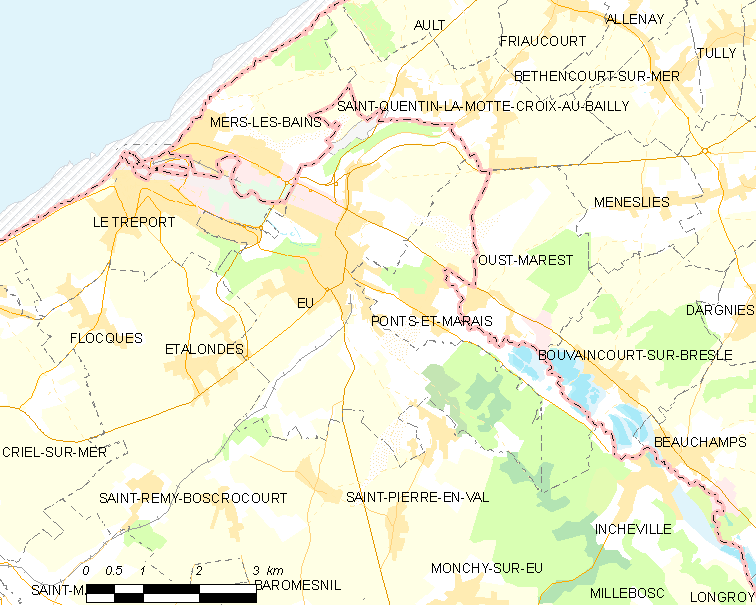 Map of French municipality Eu